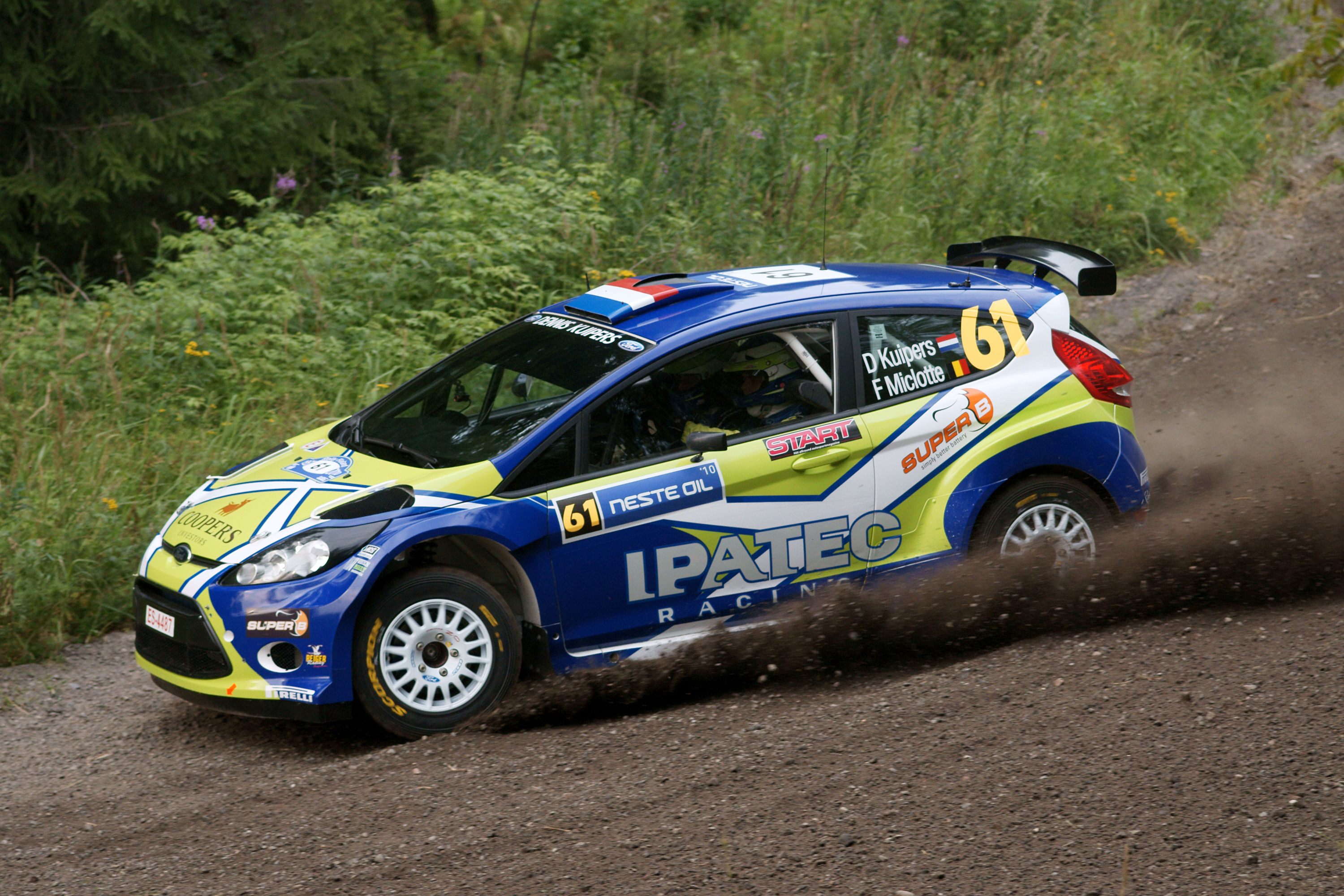 Dennis Kuipers driving at Laajavuori special stage, Rally Finland 2010.